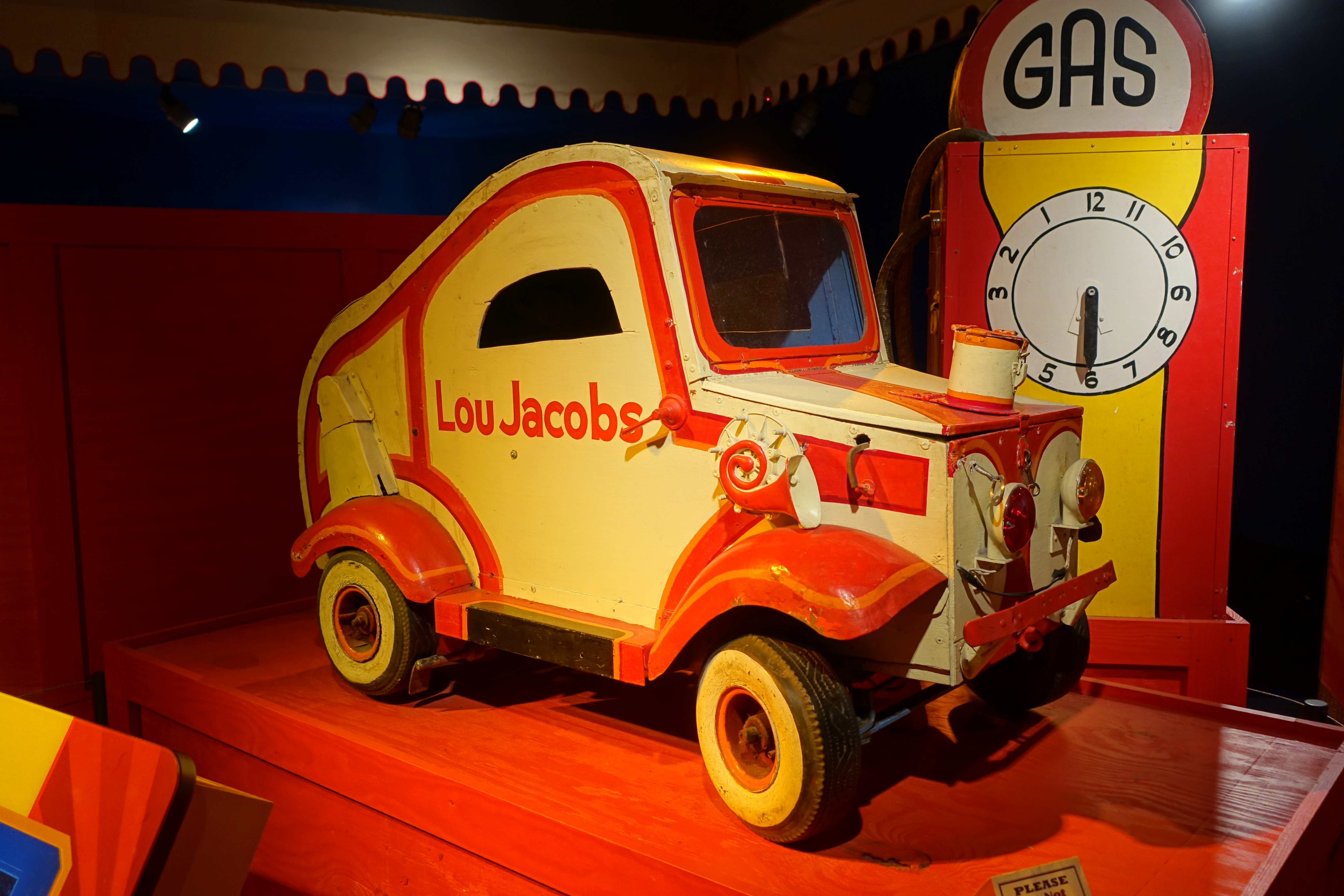 Lou Jacobs miniature clown car and gas pump, 1951-1952, wood, metal, paint - Circus Museum - John and Mable Ringling Museum of Art - Sarasota, Florida, USA.